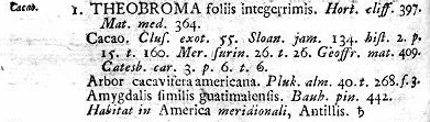 Descriptio of Theobroma cacao